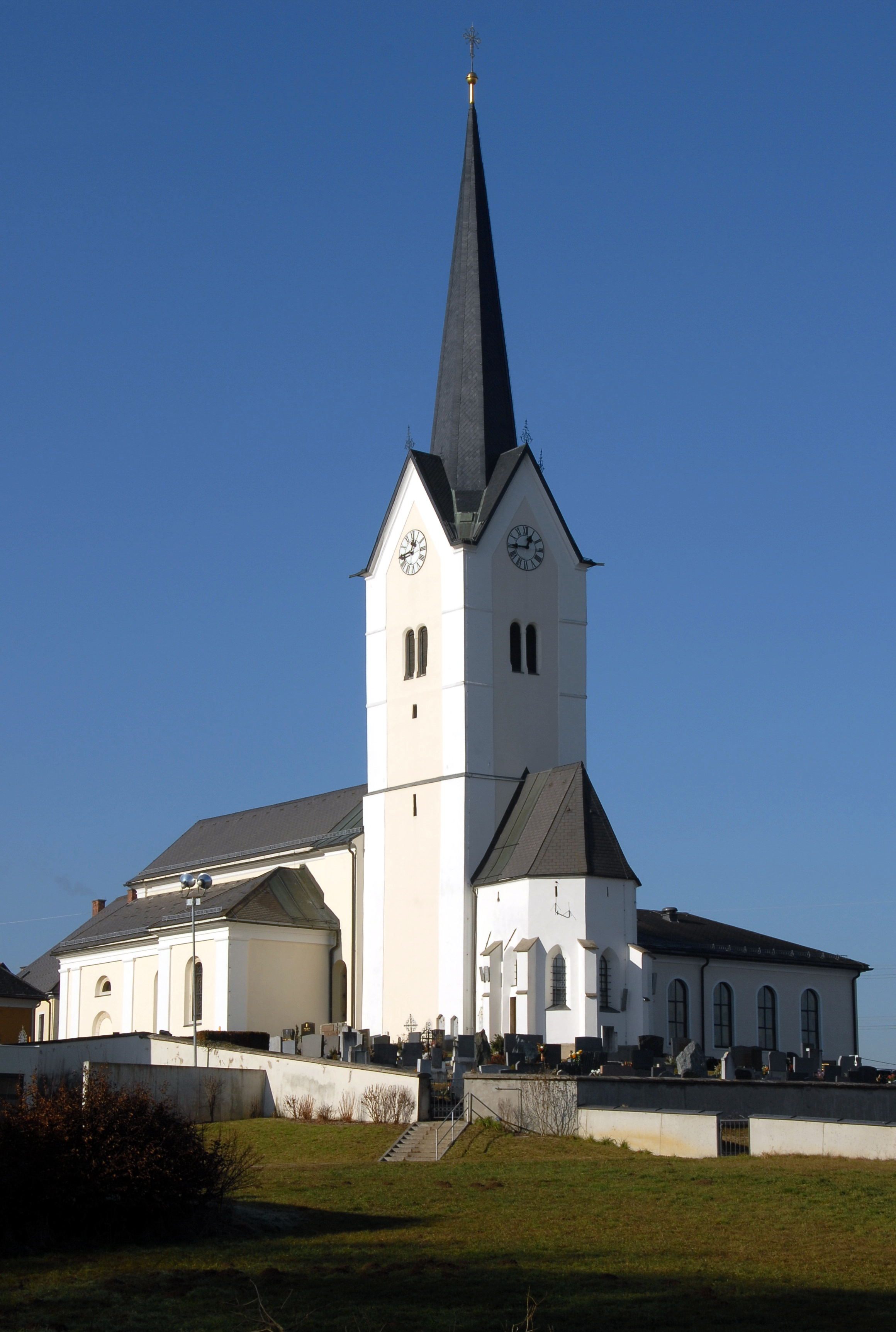 Parish church Holy Kanzian at Saint Kanzian on the Lake Klopein, district of Voelkermarkt, Carinthia, Austria